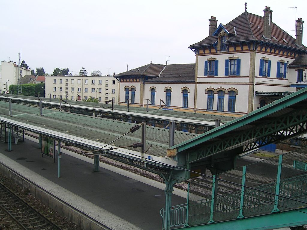 Gare principale Photo personnelle (own work) de Marianna